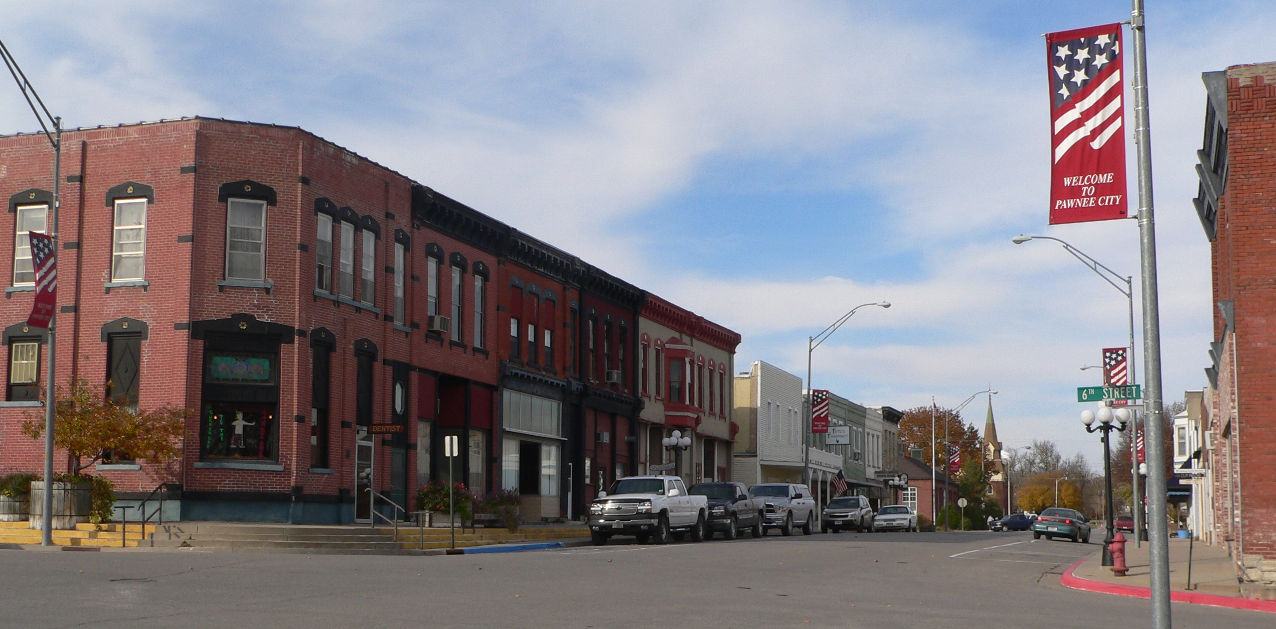 Pawnee City, Nebraska: west side of G Street, looking northwest from about 6th Street.